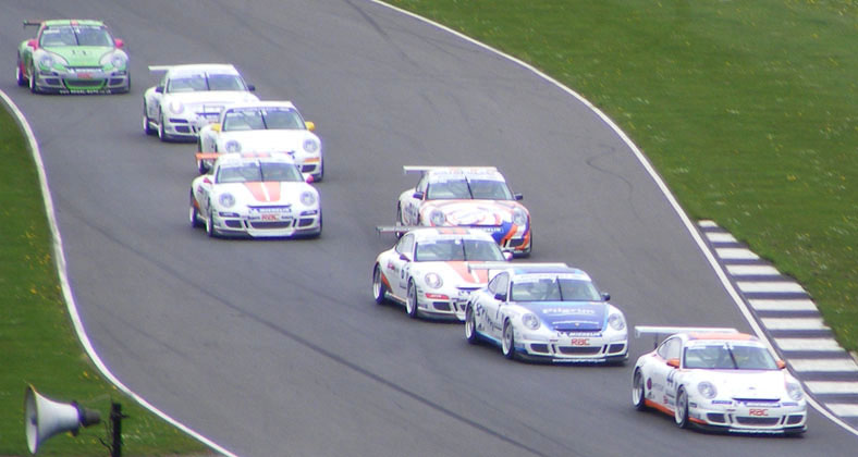 Second Porsche Carrera Cup GB race Donington Park race circuit, 4th May 2008. Taken with a Fuji FinePix S5700 and cropped with Adobe Photoshop.